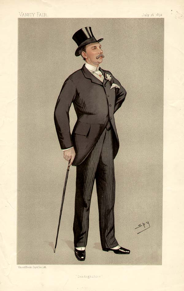 Statesmen No.595: Caricature of Col WC Cornwallis-West MP. Caption reads: "Denbighshire"